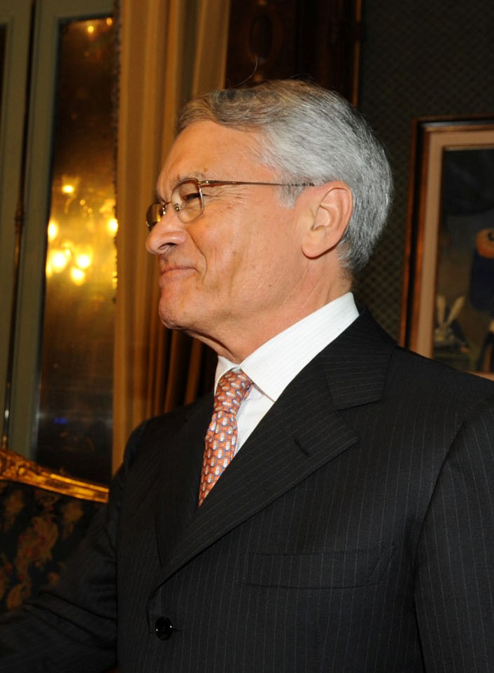 Chakib Khelil Minister for Energy and Mines of Algeria during a state visit to Argentina